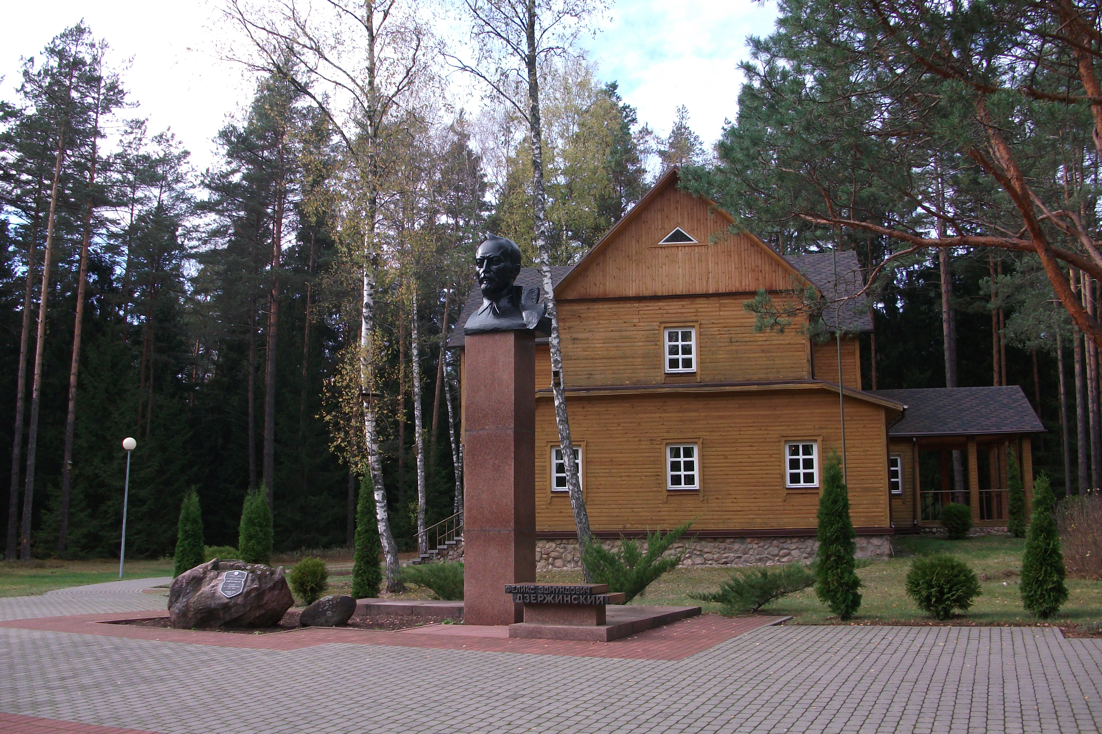 'Dzyarzhynava' Memorial Complex, Stowbtsy Raion, Belarus This is a photo of Belarusian heritage monument. Reference number: 613Д000612 ( WLM)